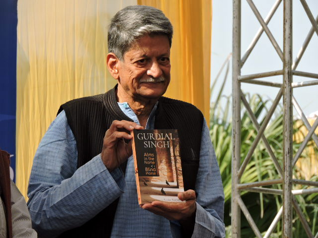 Kiran Nagarkar ,Marathi and English language writer, at Chandigarh Literature Festival 2016,India